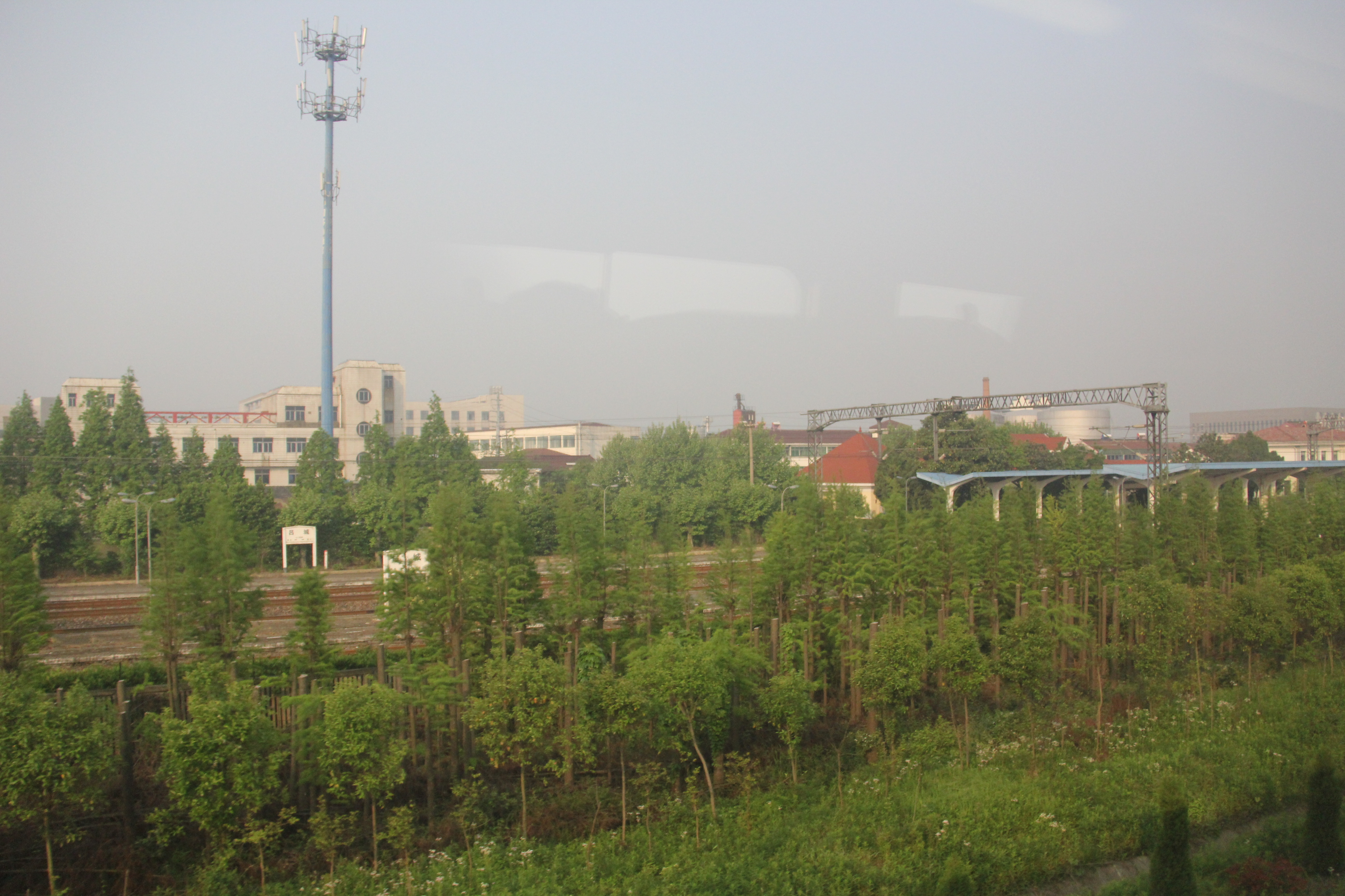 201604 Lyucheng Station